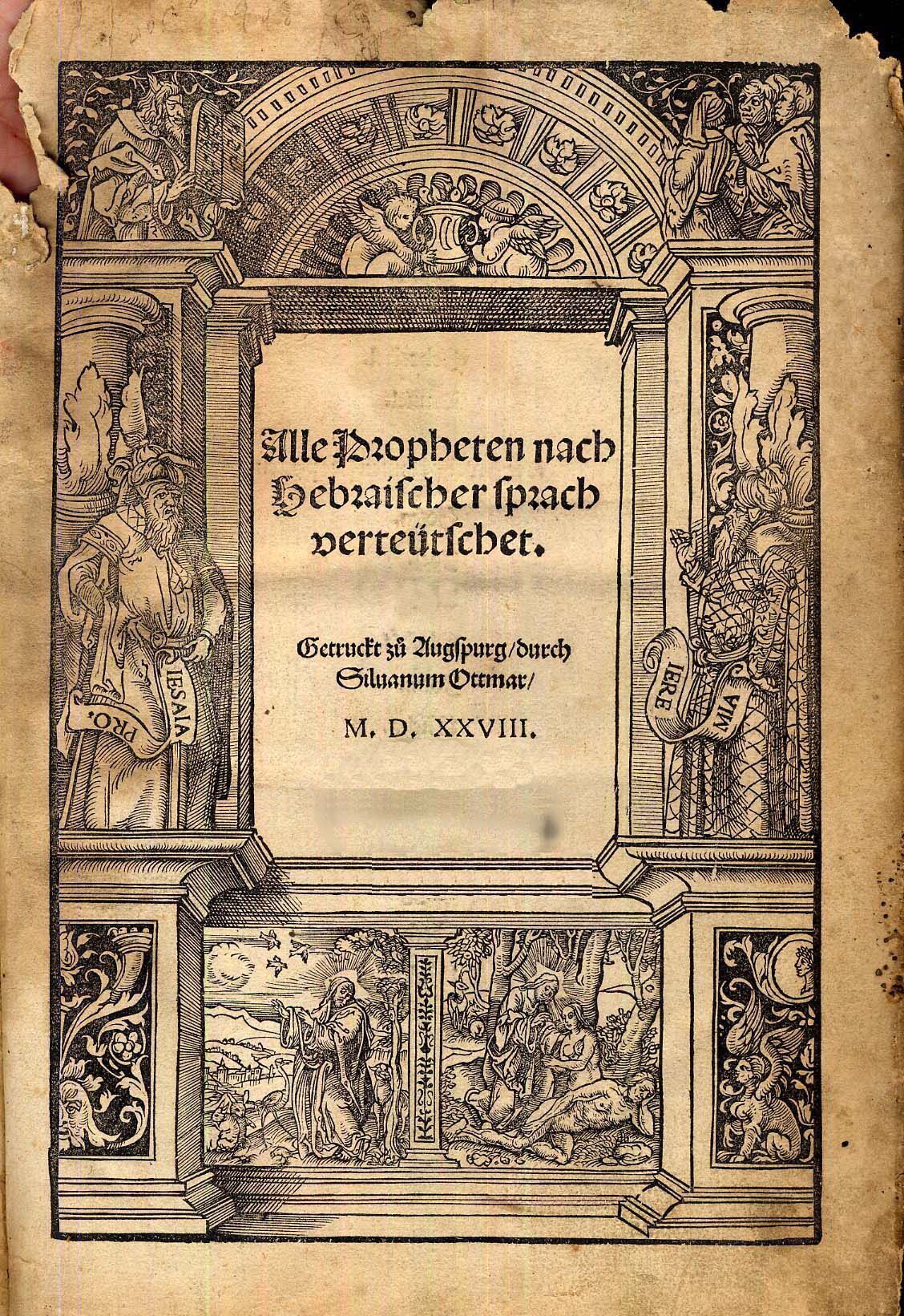 Titlepage of Alle Propheten, Augsburg edition, 1528